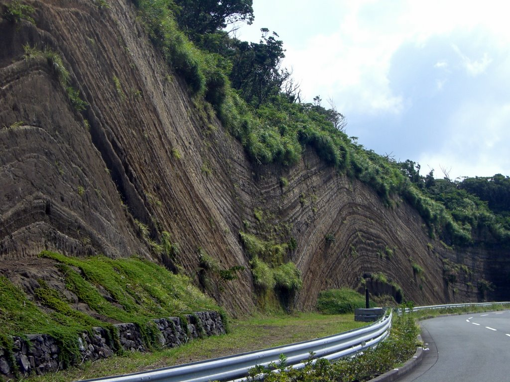 Volcanic ash-fall layers on Izu Oshima volcano in Japan. The volcanic ash was erupted into the air by the volcano. The ash then fell back onto ground. The ash was deposited during Pleistocene and Holocene times on an uneven ground surface. The ash layers are parallel to the curvature of the underlying ground surface. The folds are known as drape folds. The ash layers have not been folded after deposition..